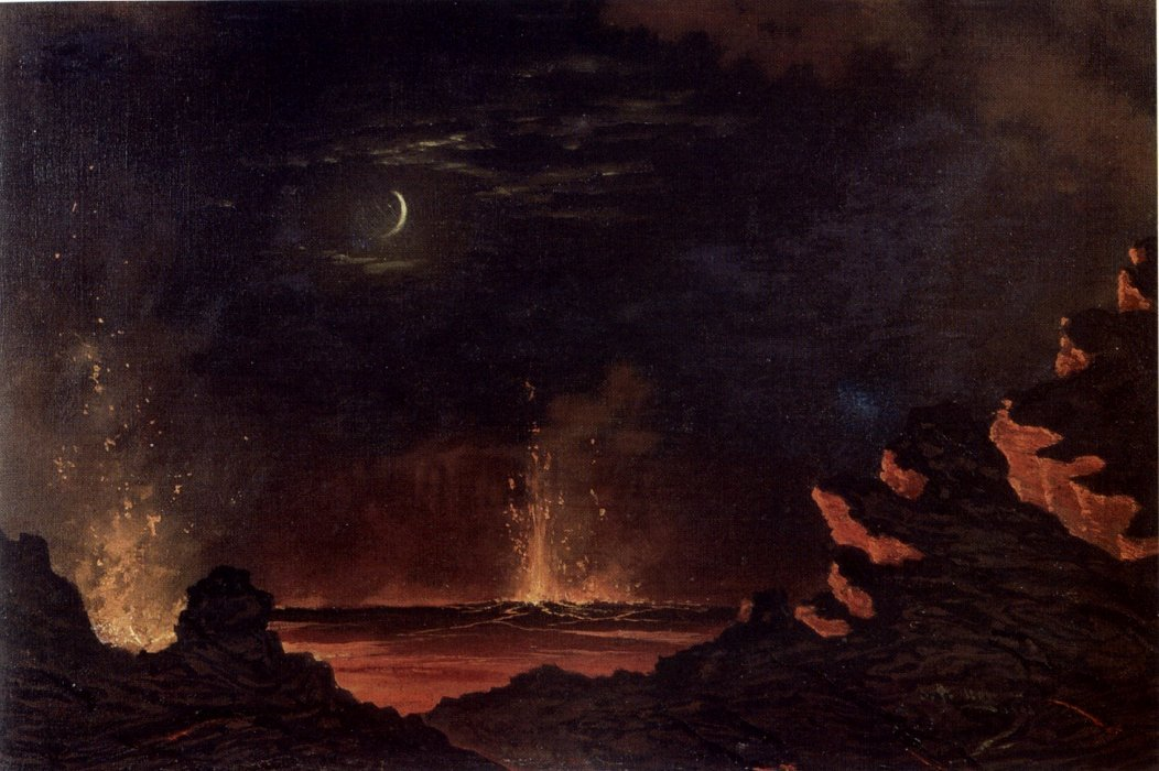 Kilauea, oil on canvas painting by Ogura Yonesuke Itoh, 1908, Honolulu Museum of Art Native nameHonolulu Museum of ArtLocationHonolulu, Hawaii, USACoordinates21° 18′ 14″ N, 157° 50′ 54″ W Established1922Websitehonolulumuseum.orgAuthority control VIAF: 297612039 ISNI: 0000 0004 4661 5836 SUDOC: 185174566